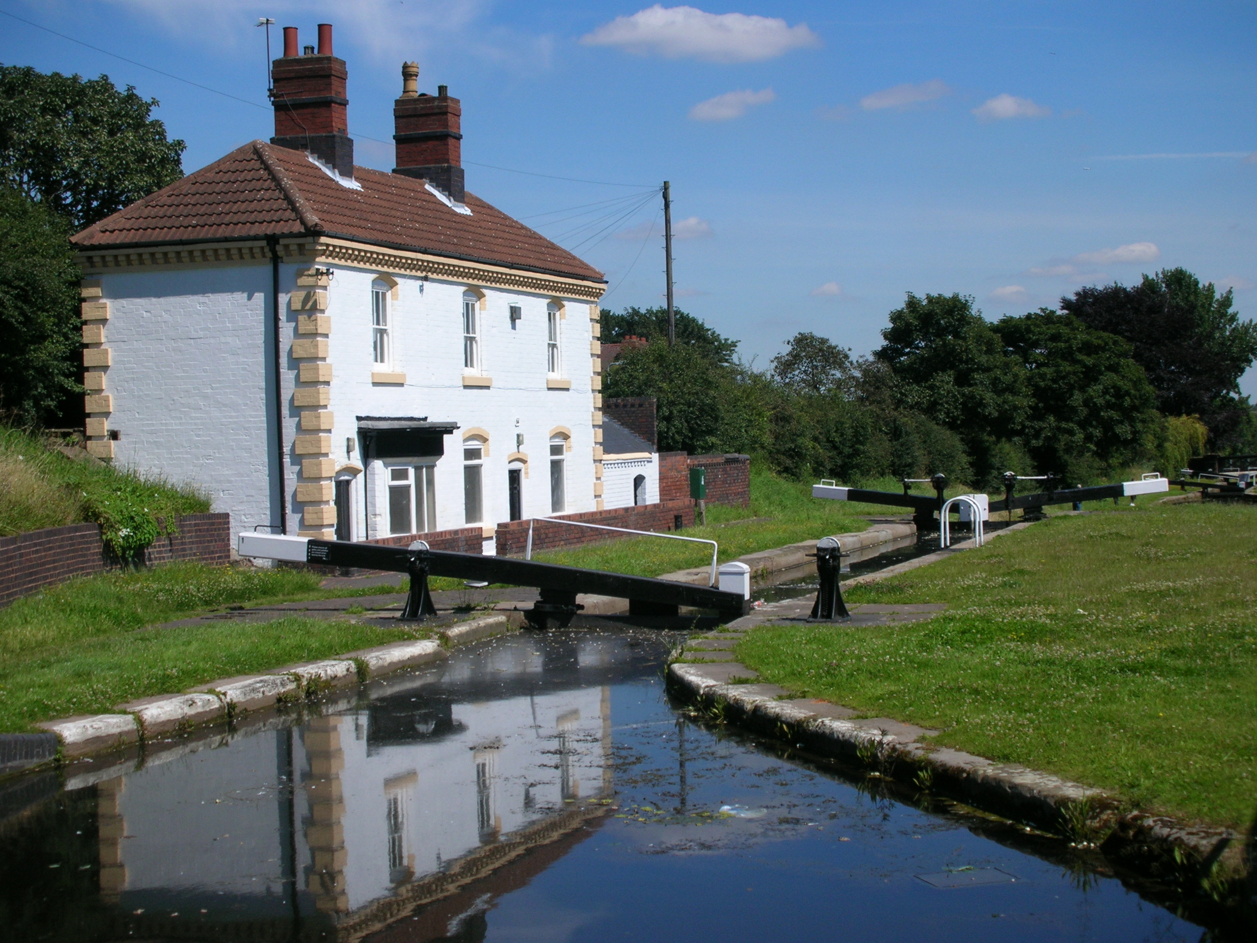 Lock No. 1 and lock-keeper's cottage (No. 86) on the Perry Barr flight of locks on the Tame Valley Canal in the county of West Midlands in England. Photographed by me 31 July 2007. Oosoom